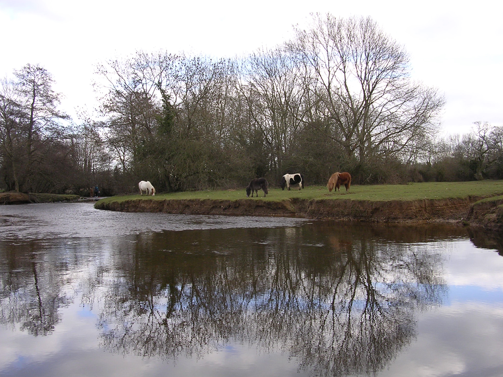 New Forest ponies grazing by the Lymington River between Balmer Lawn and Brockenhurst